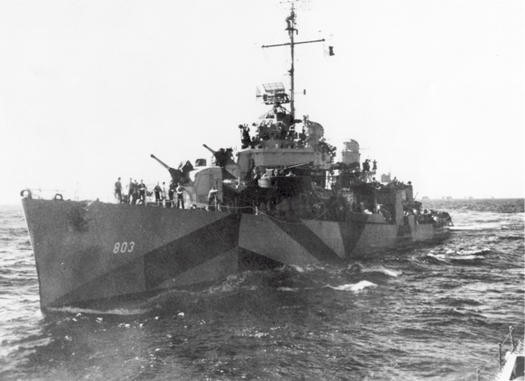 The U.S. Navy destroyer USS Little (DD-803) underway, circa in early 1945. The ship is painted in Camouflage Measure 31, Design 16D.